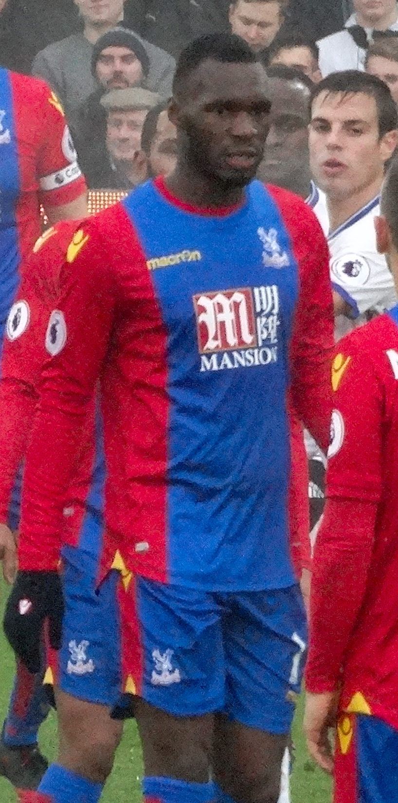 Christian Benteke playing for Crystal Palace against Chelsea at Selhurst Park, London on 17 December 2016